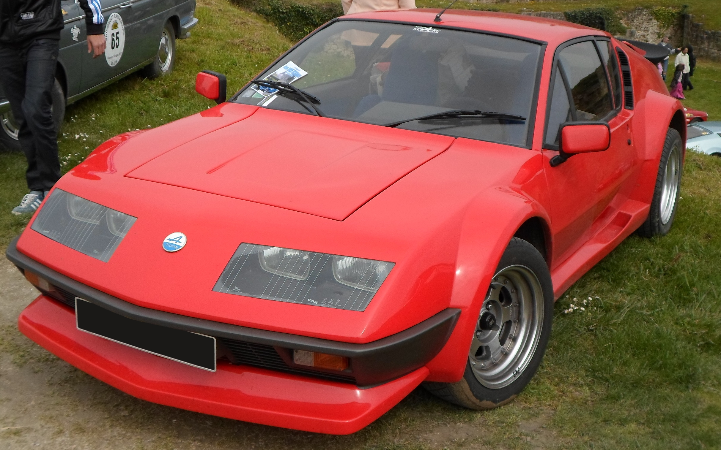 Alpine A310 Blaye 2013; edited by Goran tek-en to remove the license plate.